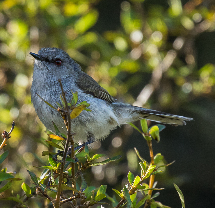 Grey Gerygone - New Zealand_FJ0A0288